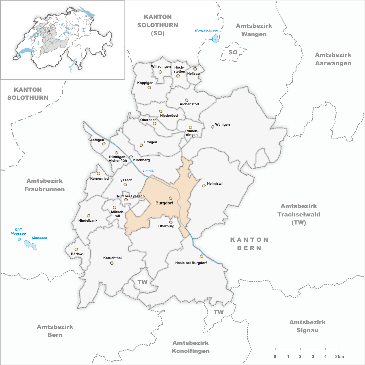 Municipality Burgdorf